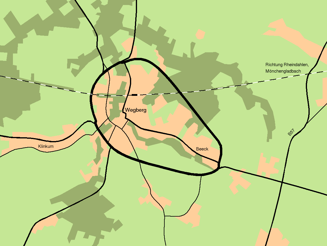 Map of the former high speed race track "Grenzlandring" around Wegberg